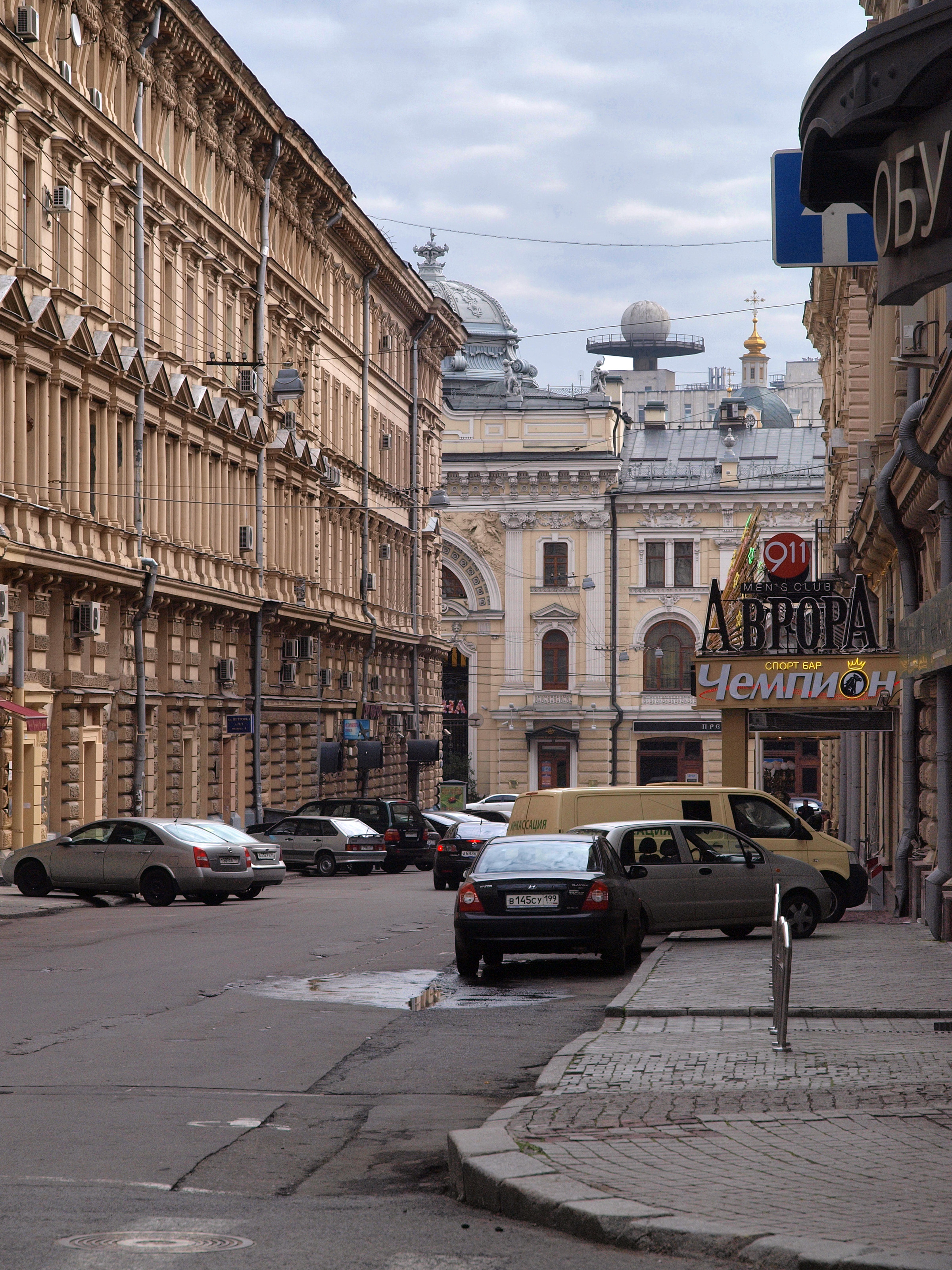 Petrovskie Linii Street, Moscow (view north-east from Petrovka Street). The radom in the distance marks FAPSI building in Bolshoy Kiselny Lane.